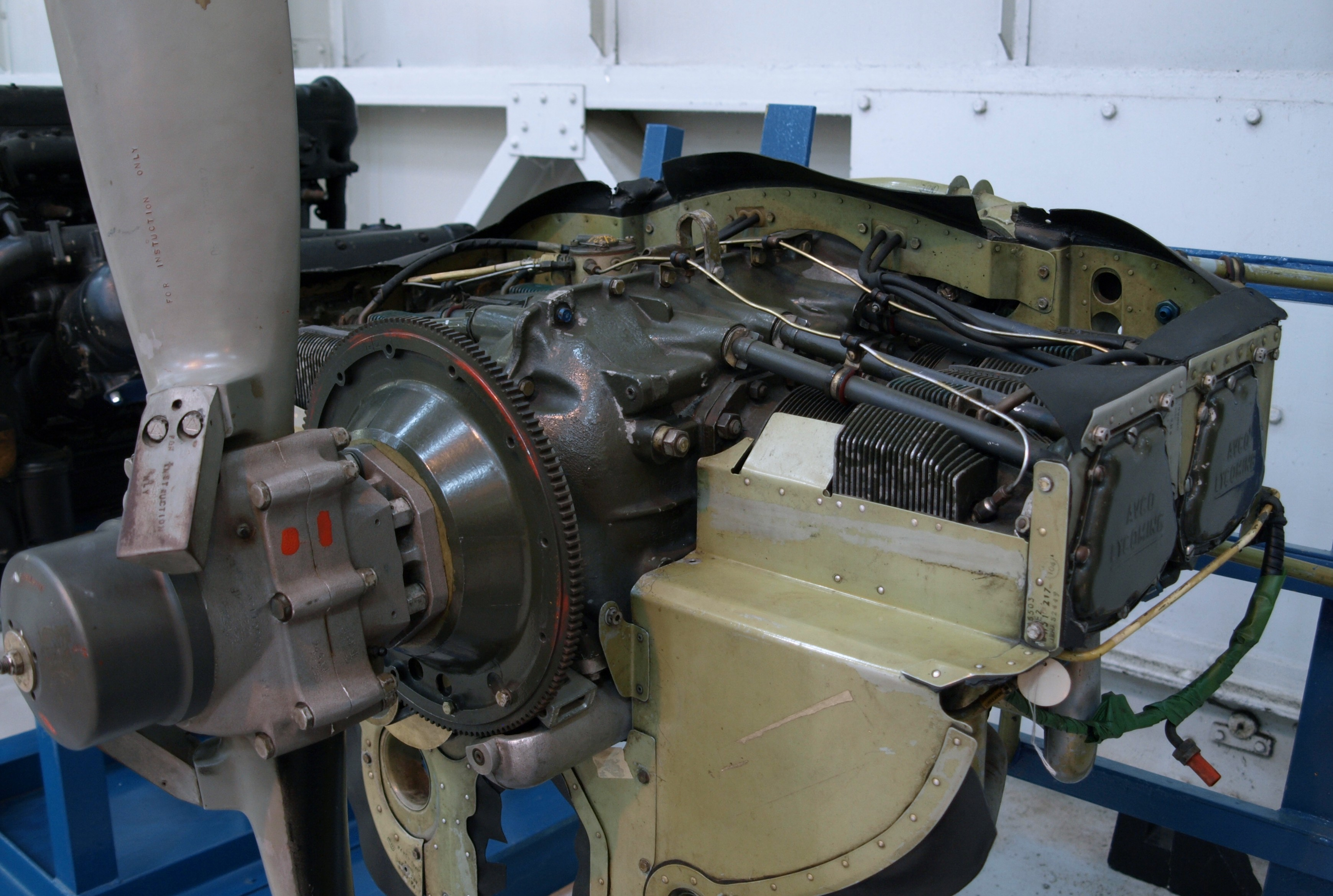 Lycoming IO-360-A1B6 aircraft piston engine at the Royal Air Force Museum, Cosford.